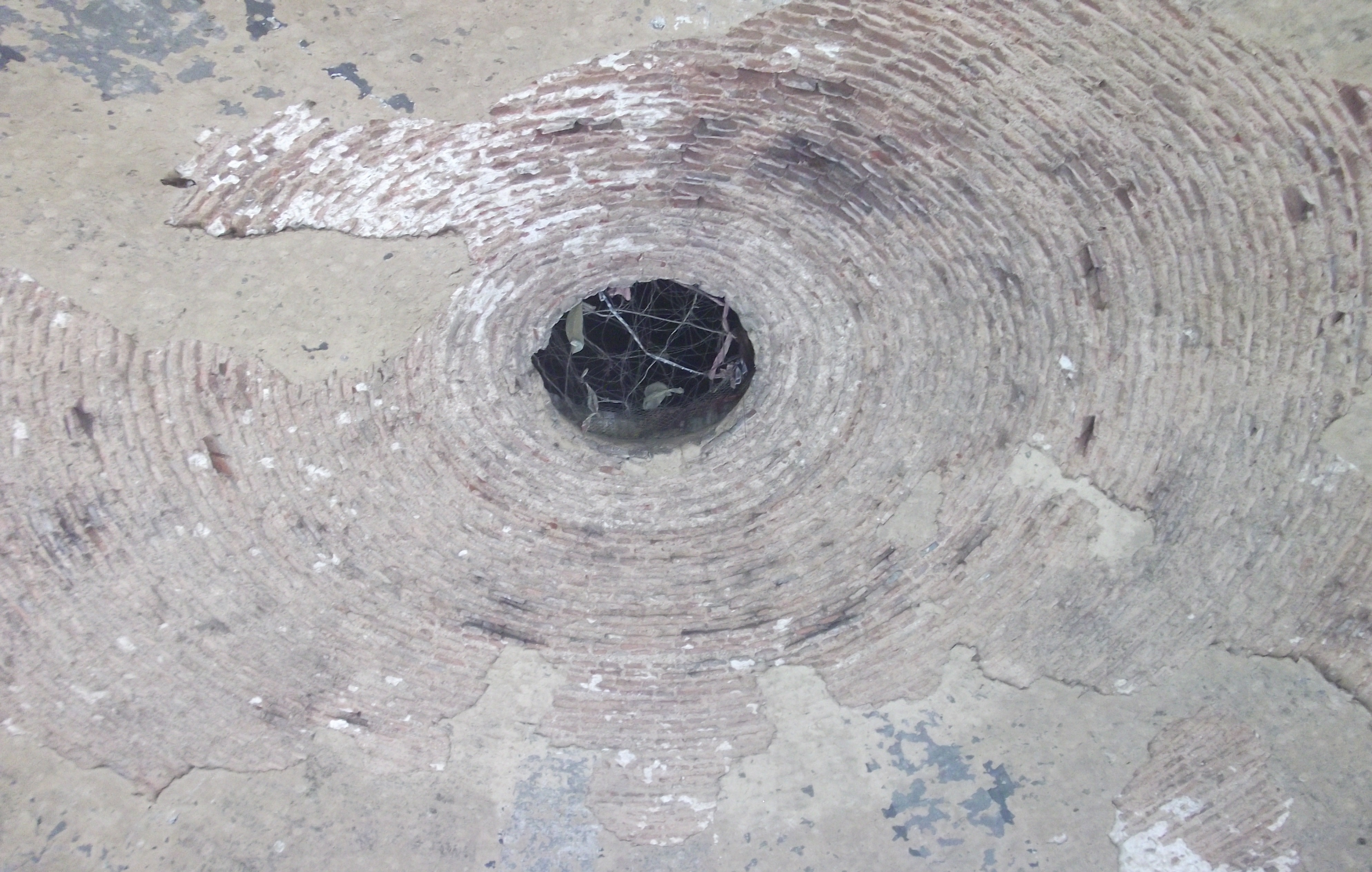 Interior Dome of the tomb of Khan-e-Jahan Bahdur Kolkaltash, Lahore